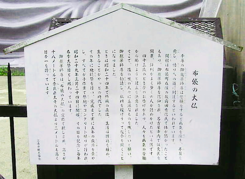 2006-6-25 The person myself photographed this.